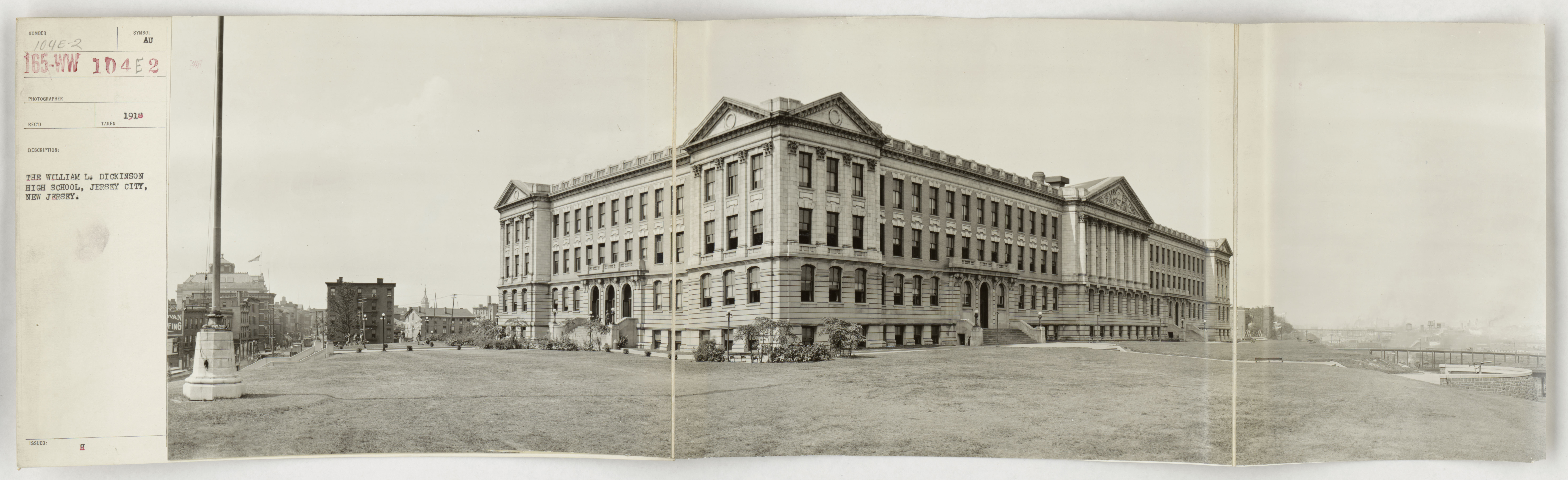 Scope and content: Date:1918